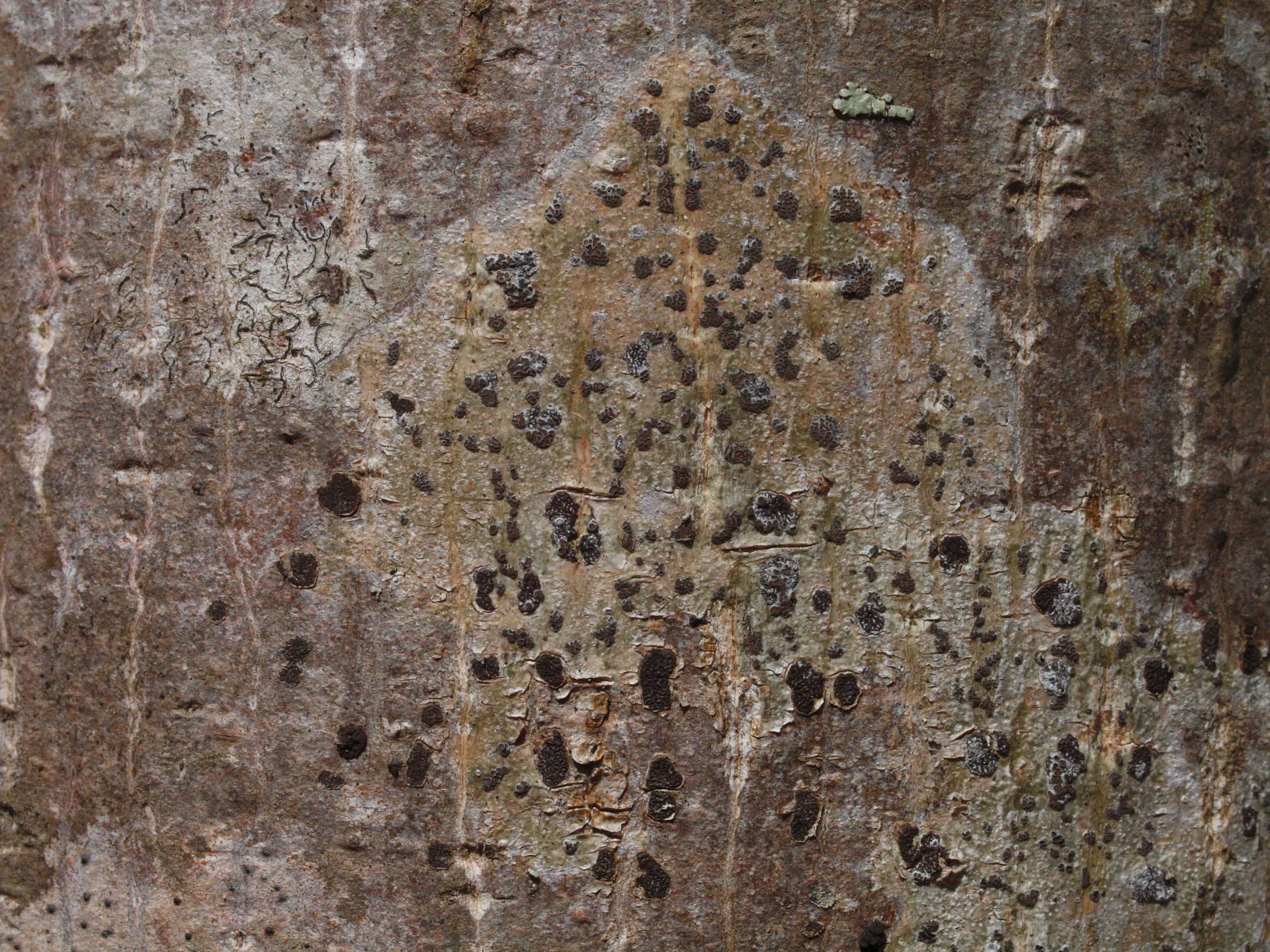 The lichen Glyphis cicatricosa Ach. Specimen photographed in Cane Creek Canyon Nature Preserve, Colbert County, Alabama.